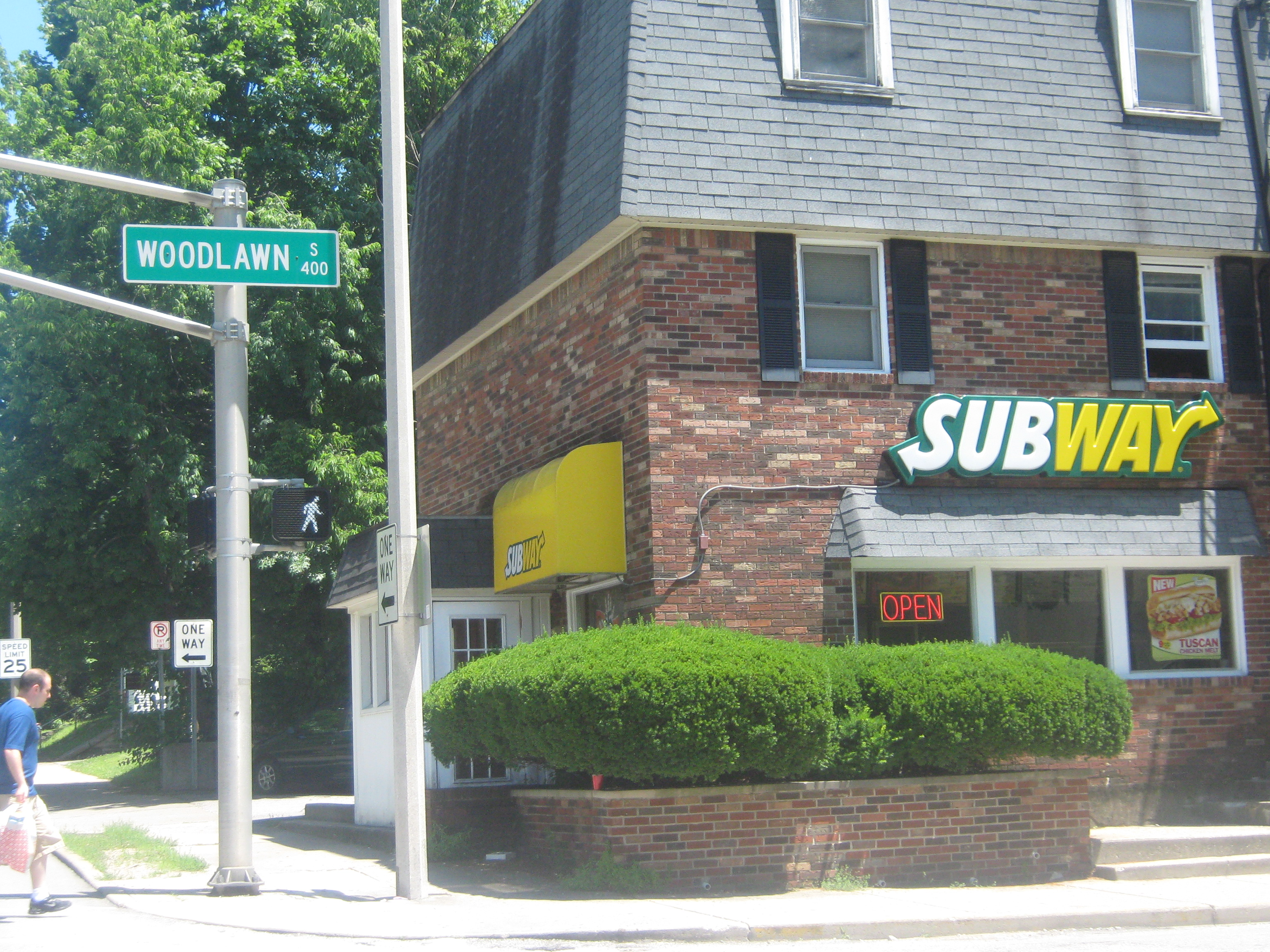 Subway restaurant on the southeastern corner of the junction of Atwater and Woodlawn Avenues in Bloomington, Indiana. One of the apartments above the restaurant was once home to Jared Fogle